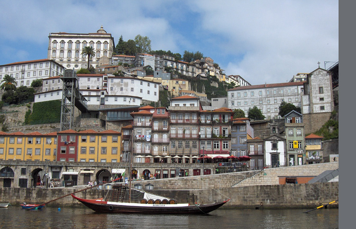 Ribeira, old district (protected by UNESCO) in Porto, Portugal